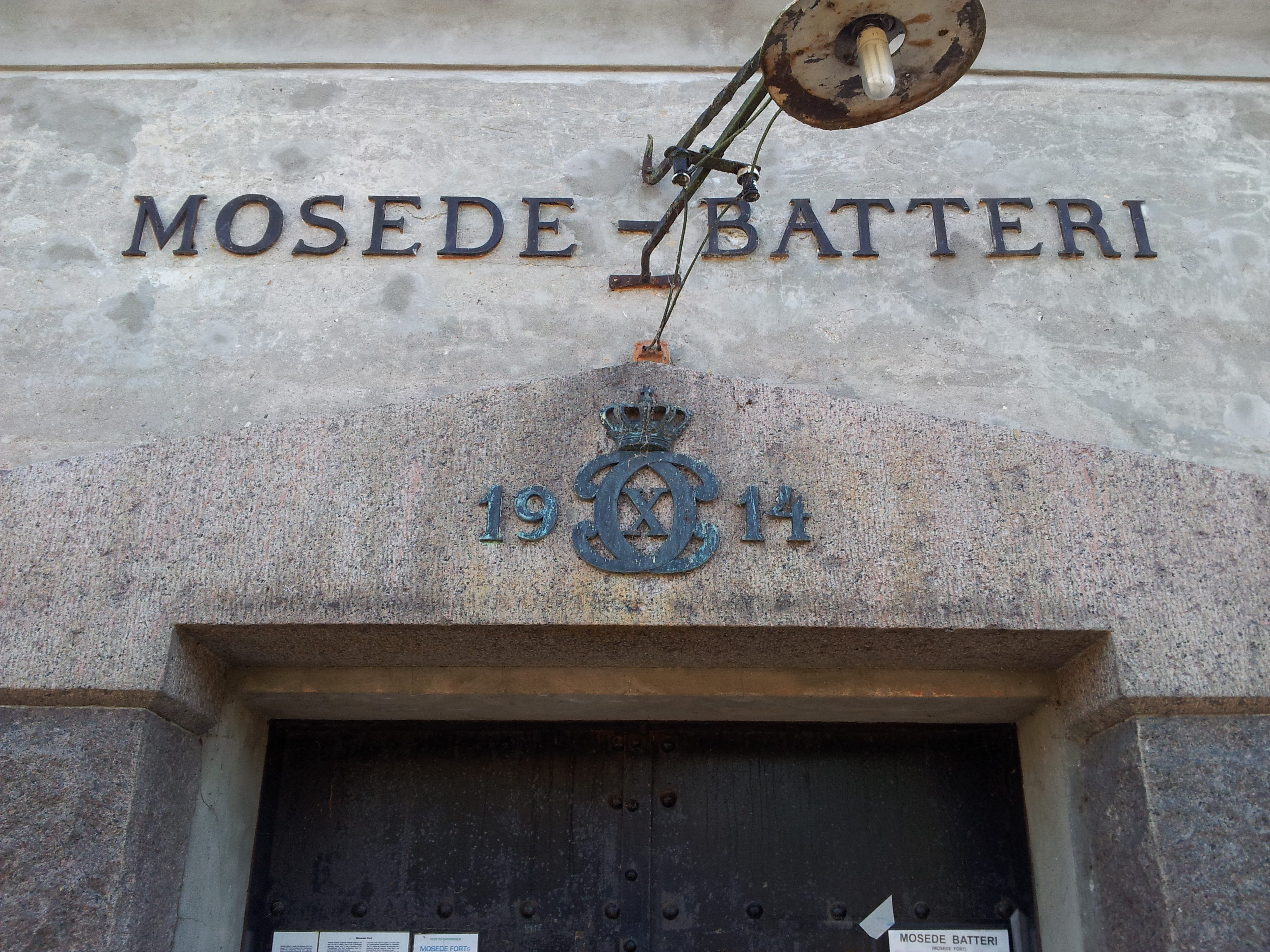 Entrance to Mosede FortDansk: Indgang til Mosede Fort